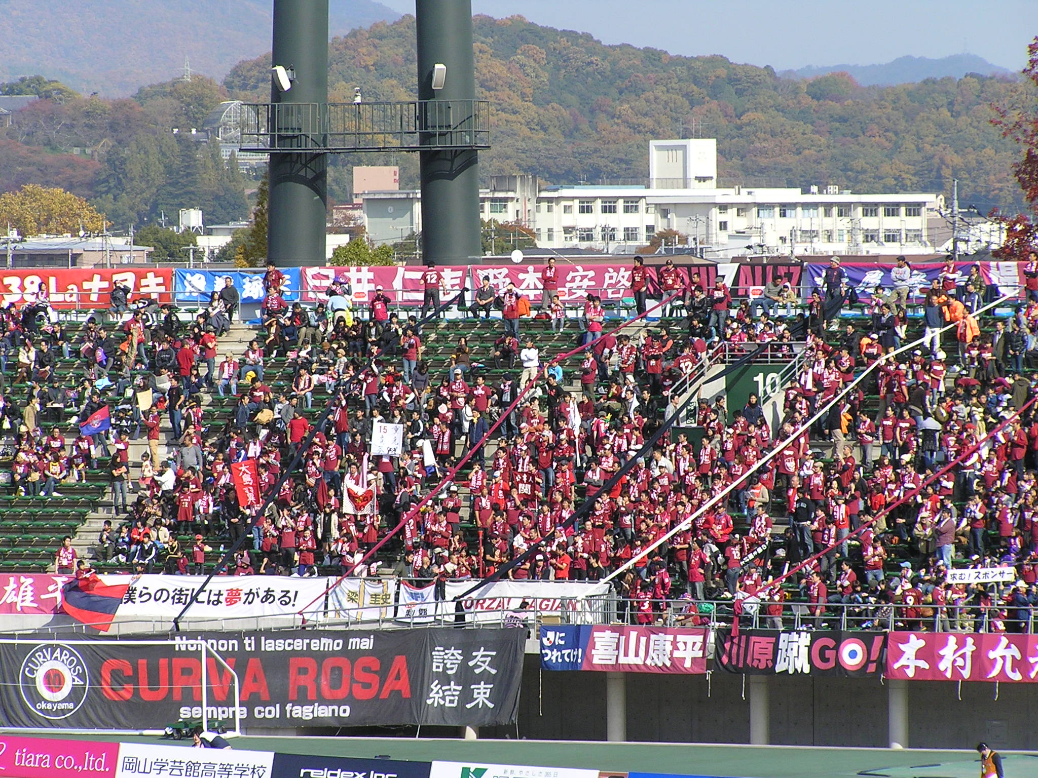 Supporter of Fagiano Okayama